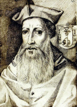 Alessandro Cesarini (seniore)